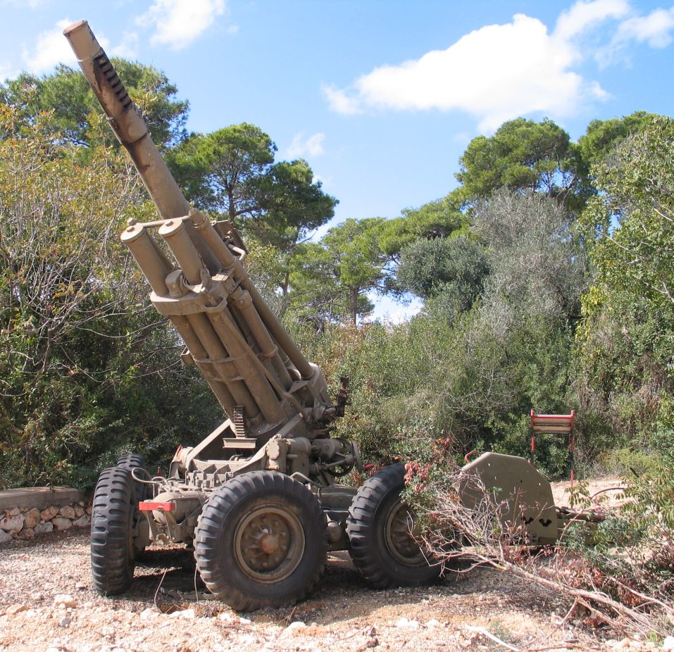 Description: French Model 50 155 mm howitzer (OB-155-50 BF ?) in Beyt ha-Totchan, Zichron Yaakov, Israel. 2005. Source: Photo by me, User:Bukvoed.